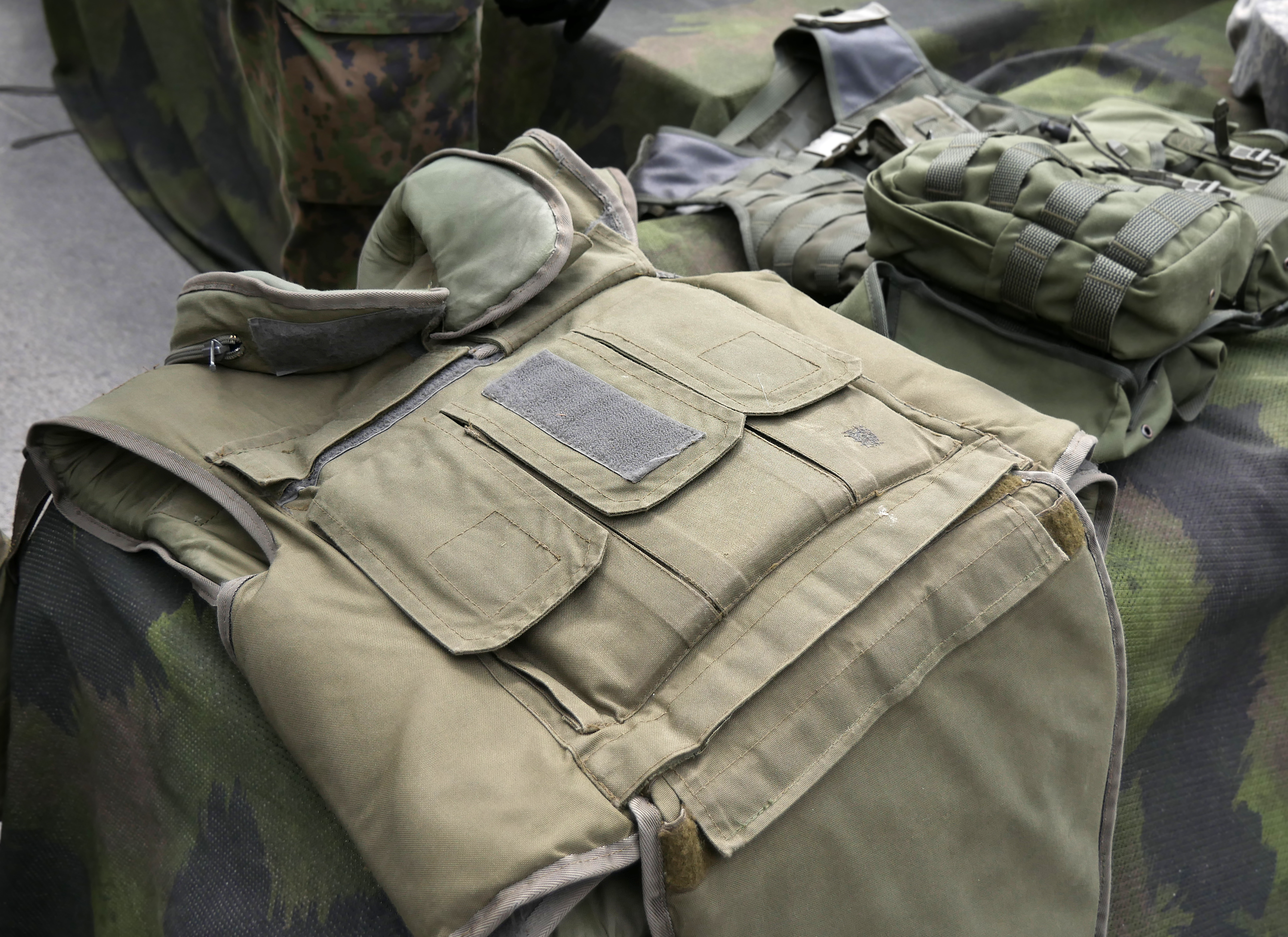 Finnish army flak jacket.